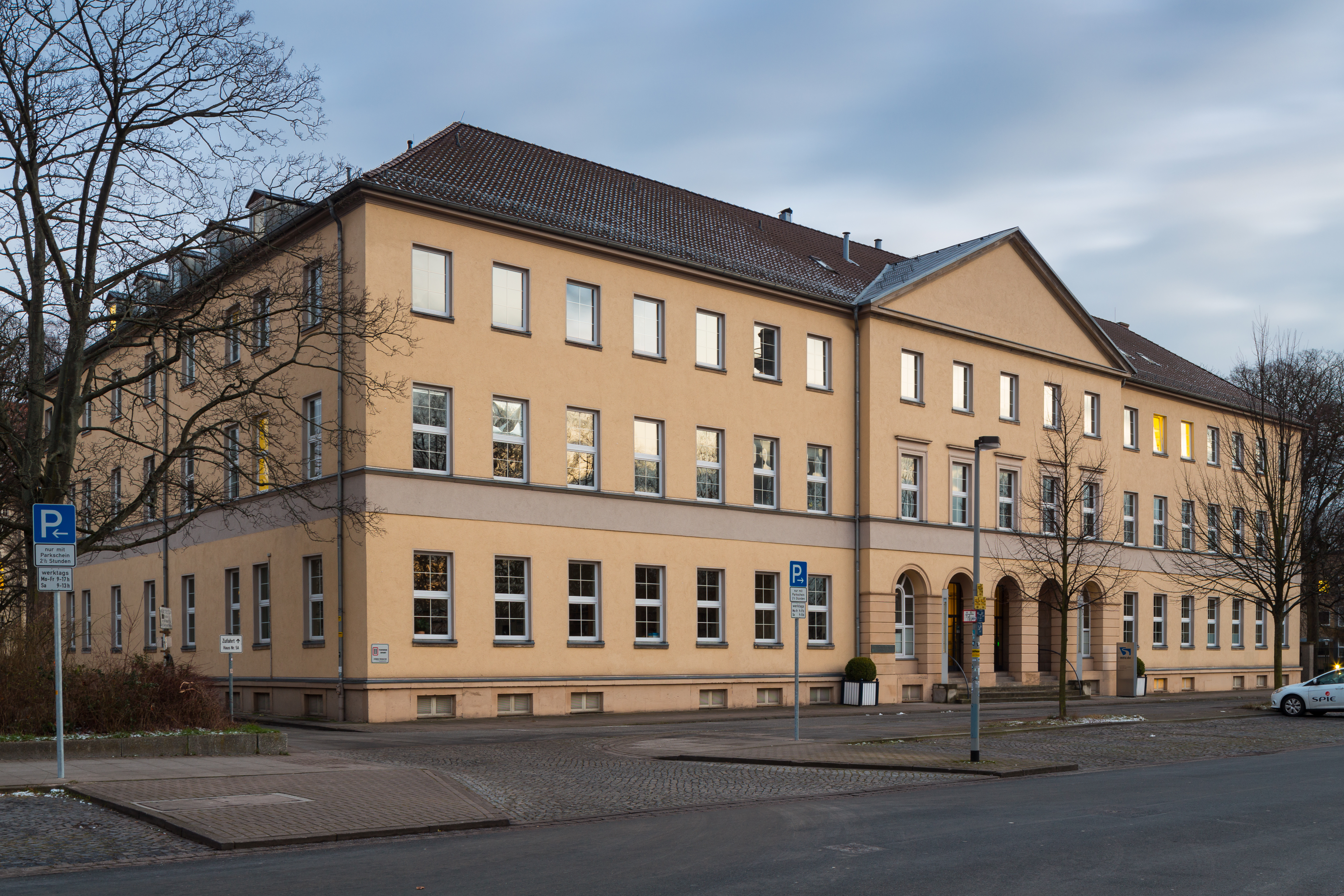 Former infantery building located at Am Schuetzenplatz no. 1 in Calenberger Neustadt, Mitte district of Hanover, Germany.